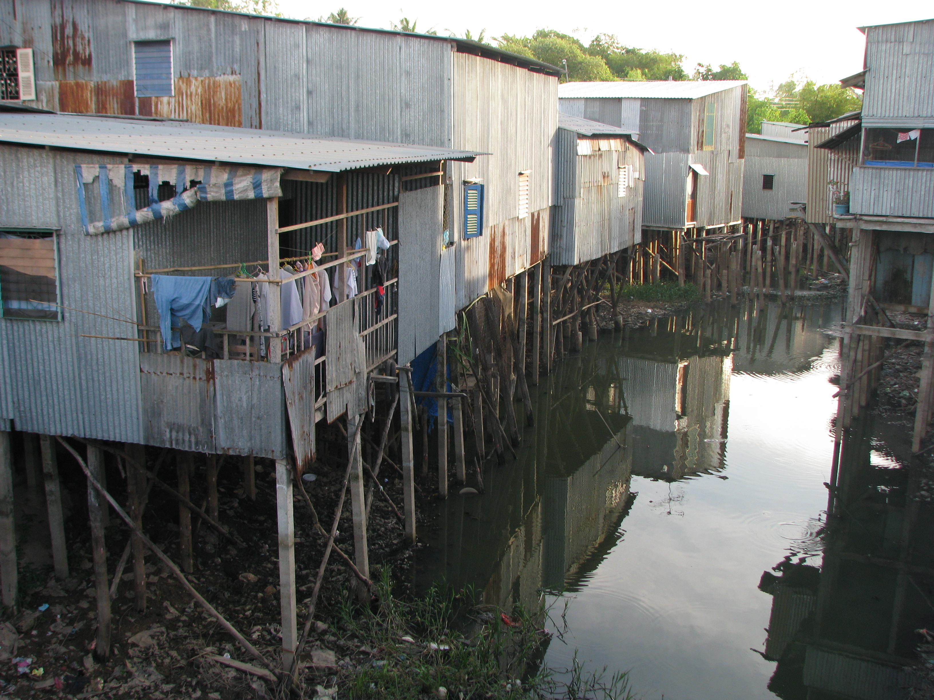 Slum-style houses built out over the canals. The delta floods for 3-4 months a year and the water rises to at least the 2nd storey so these stilts are absolutely necessary and a common feature of most buildings on the water.